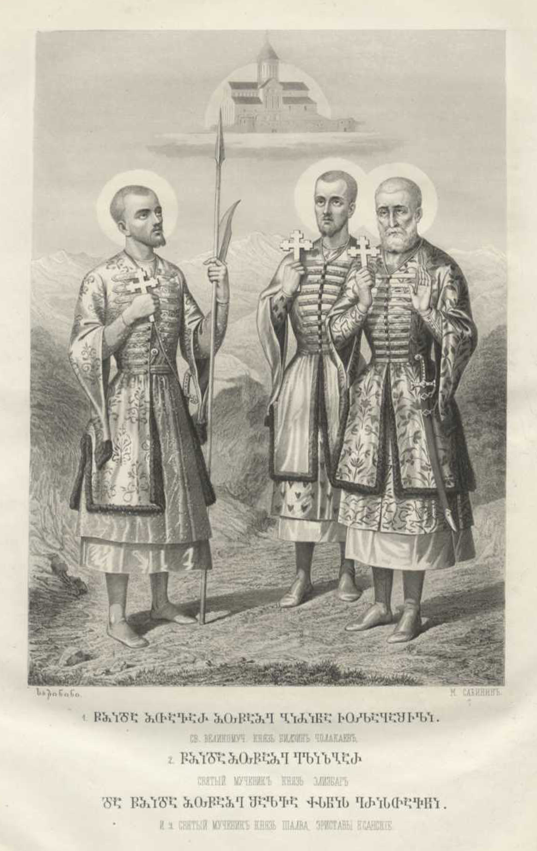 St. Bidzina, st. Elizbar and st. Shalva icon